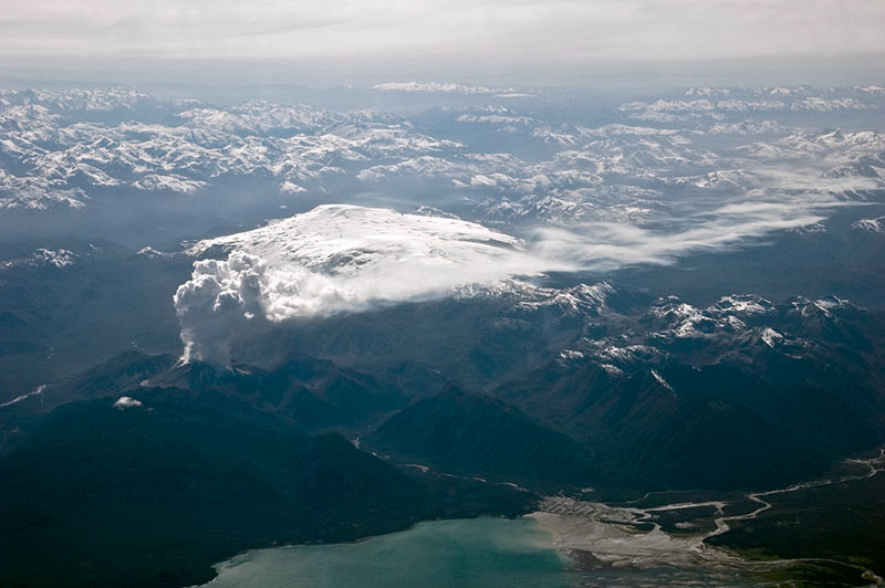 The large, glaciated summit of the Michinmávida volcano lies at only 15 km. NE of the Chaitén volcano, here seen in eruption. Taken from a commercial flight.